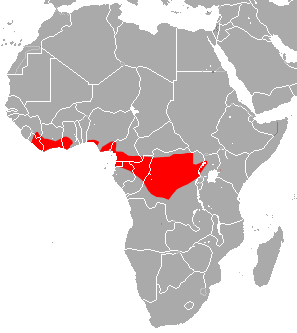 Pel's Pouched Bat (Saccolaimus peli) range